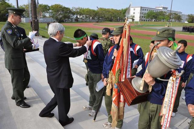 Makoto Iokibe, President of the National Defense Academy, awarded medals to winners of the Cutter Race of the National Defense Academy on April 25, 2008.